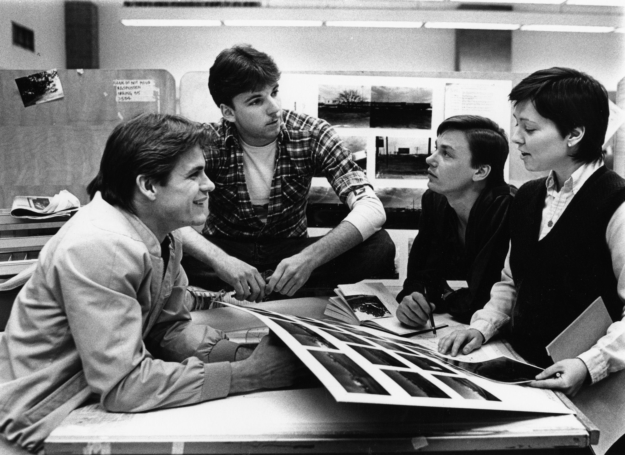 University of Texas at Arlington Architecture students working in classroom are (from left to right) Danny Richardson, Scot Rasmusssen, Brad Johnson, Suzanne Underwood.